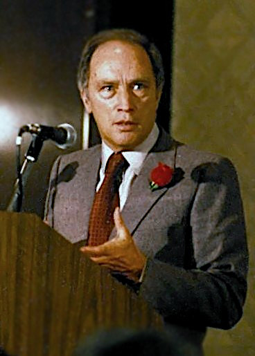 Pierre Trudeau speaking at a fundraising meeting for the Liberal Party at the Queen Elizabeth Hotel in Montréal, Québec. Cropped version of File:Pierre_Elliot_Trudeau.jpg